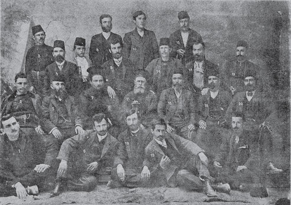 Bulgarian IMARO members and prisoners in 1910